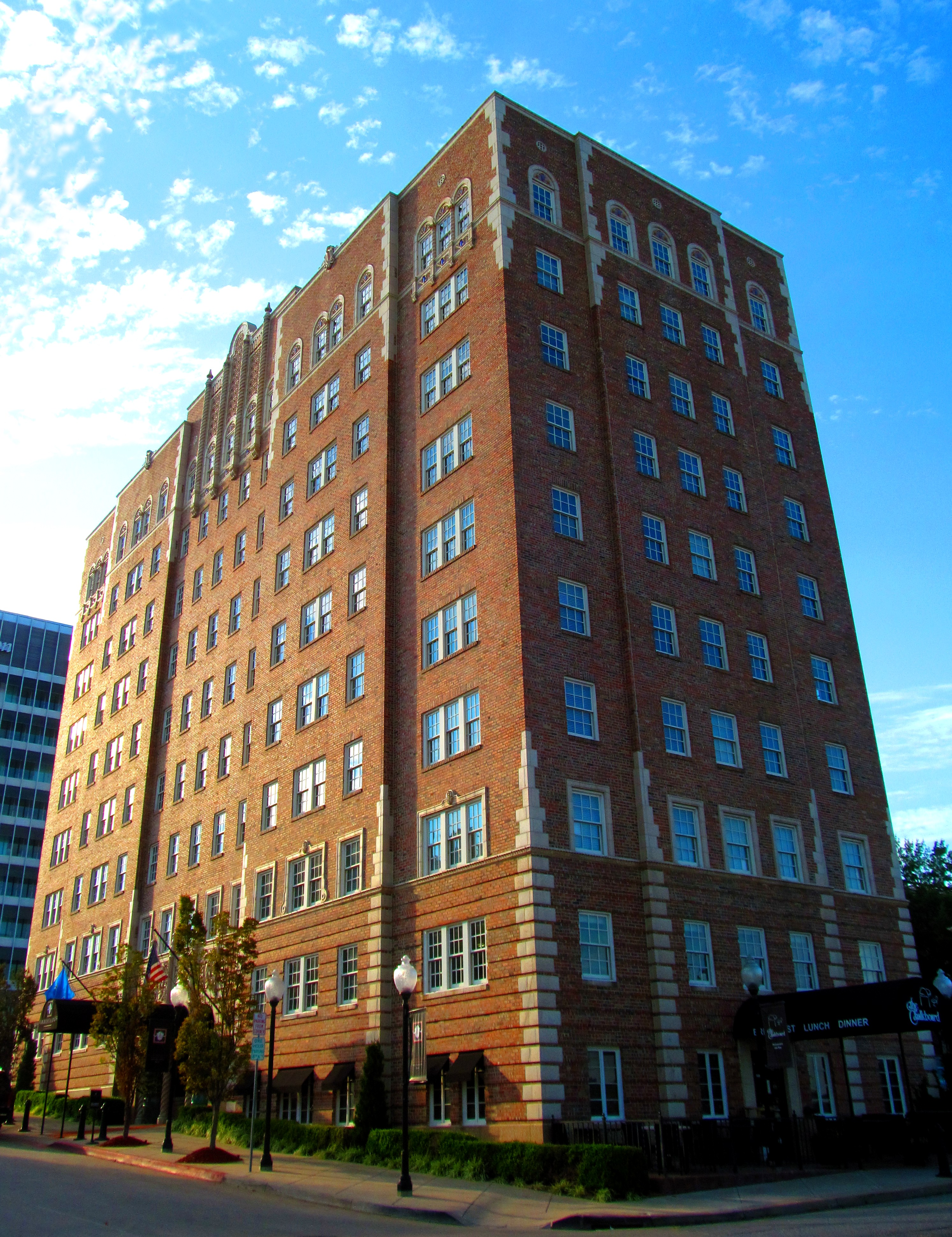 Ambassador Hotel, 1314 S. Main Tulsa